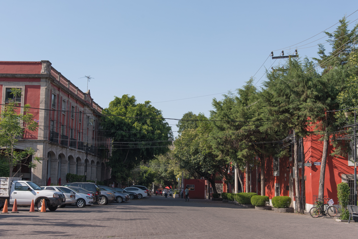 Augusto Rodin street in Colonia Insurgentes Mixcoac, Mexico City